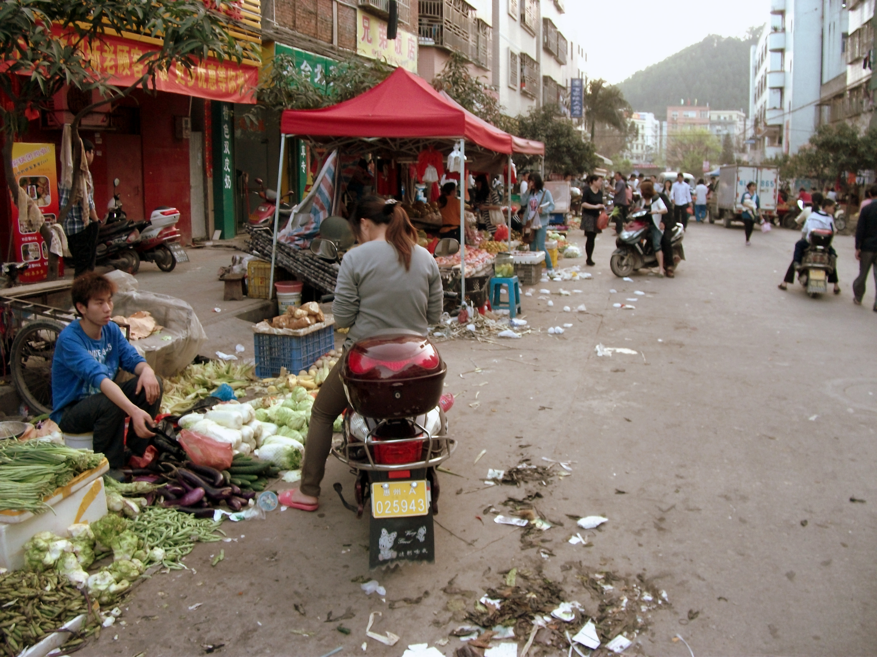 Street green market in Huizhou City, Guangdong